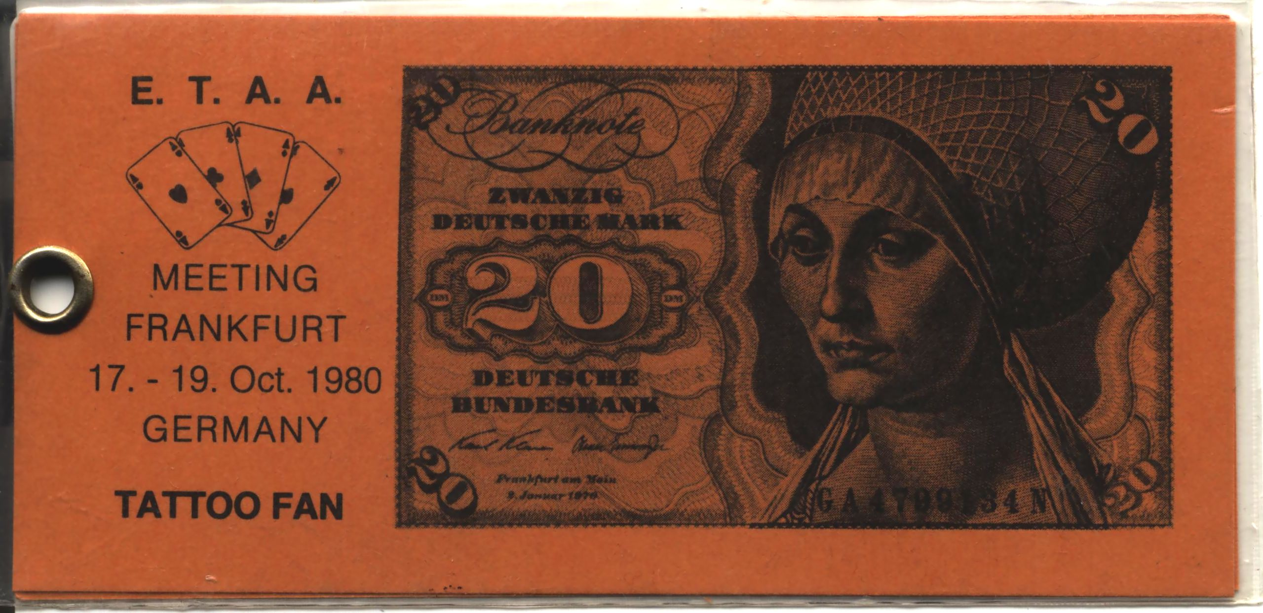 admission card for the tattoo-meeting 1980 in Frankfurt / Main, Germany